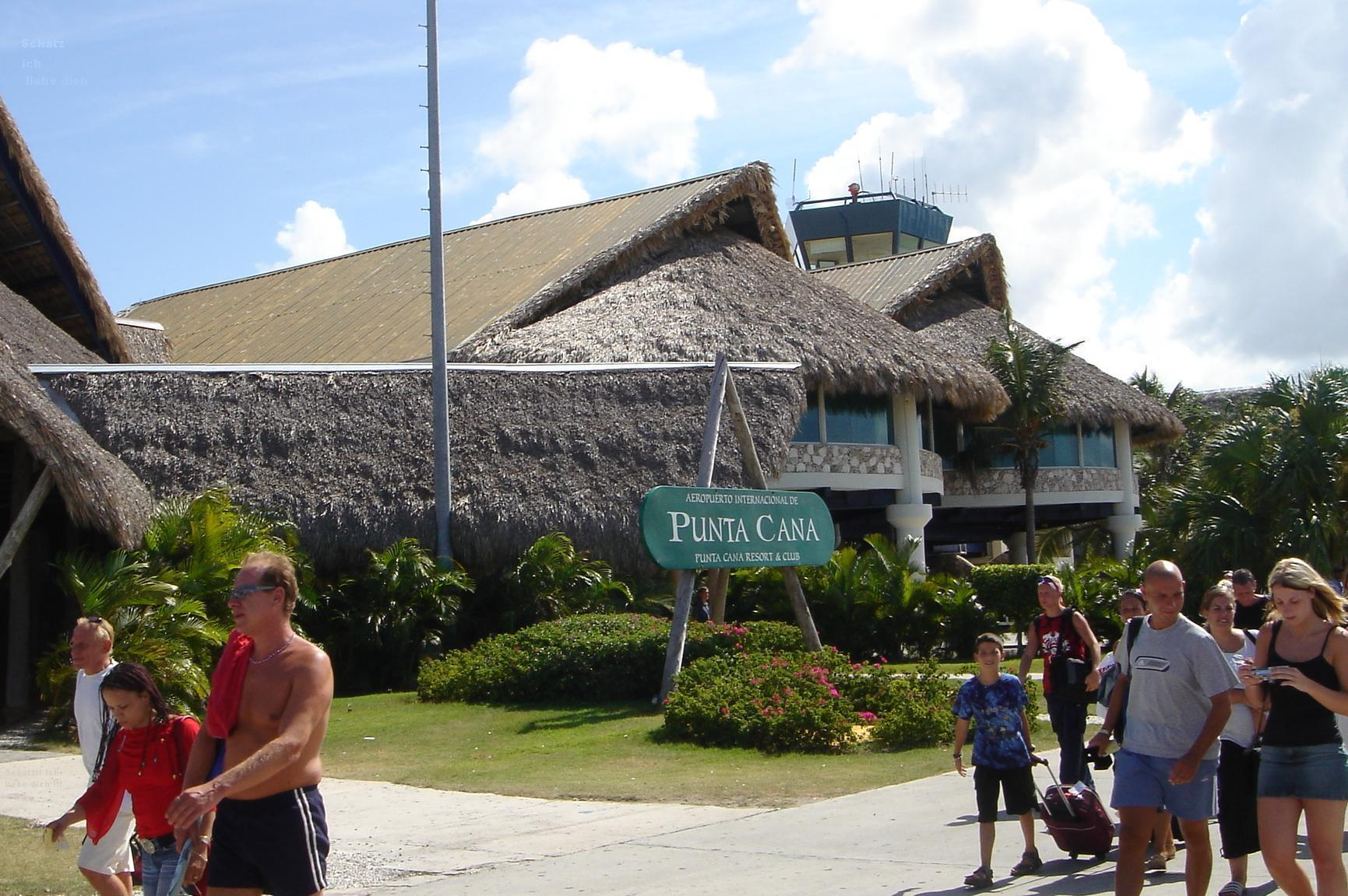 Punta Cana Airport (PUJ) terminal